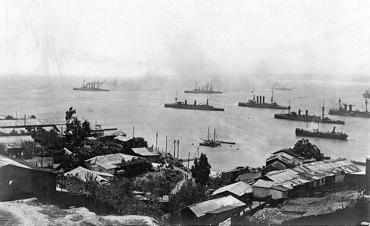 German Vice Admiral von Spee's cruiser squadron, leaving Valparaiso, Chile, circa 3 November 1914, following the Battle of Coronel. The German ships are in the distance, with the armored cruisers Scharnhorst and Gneisenau in the lead, followed by light cruiser Nürnberg. Chilean Navy warships in the middle distance include (from left to right): cruisers Esmeralda, O'Higgins and Blanco Encalda and old battleship Capitan Prat.